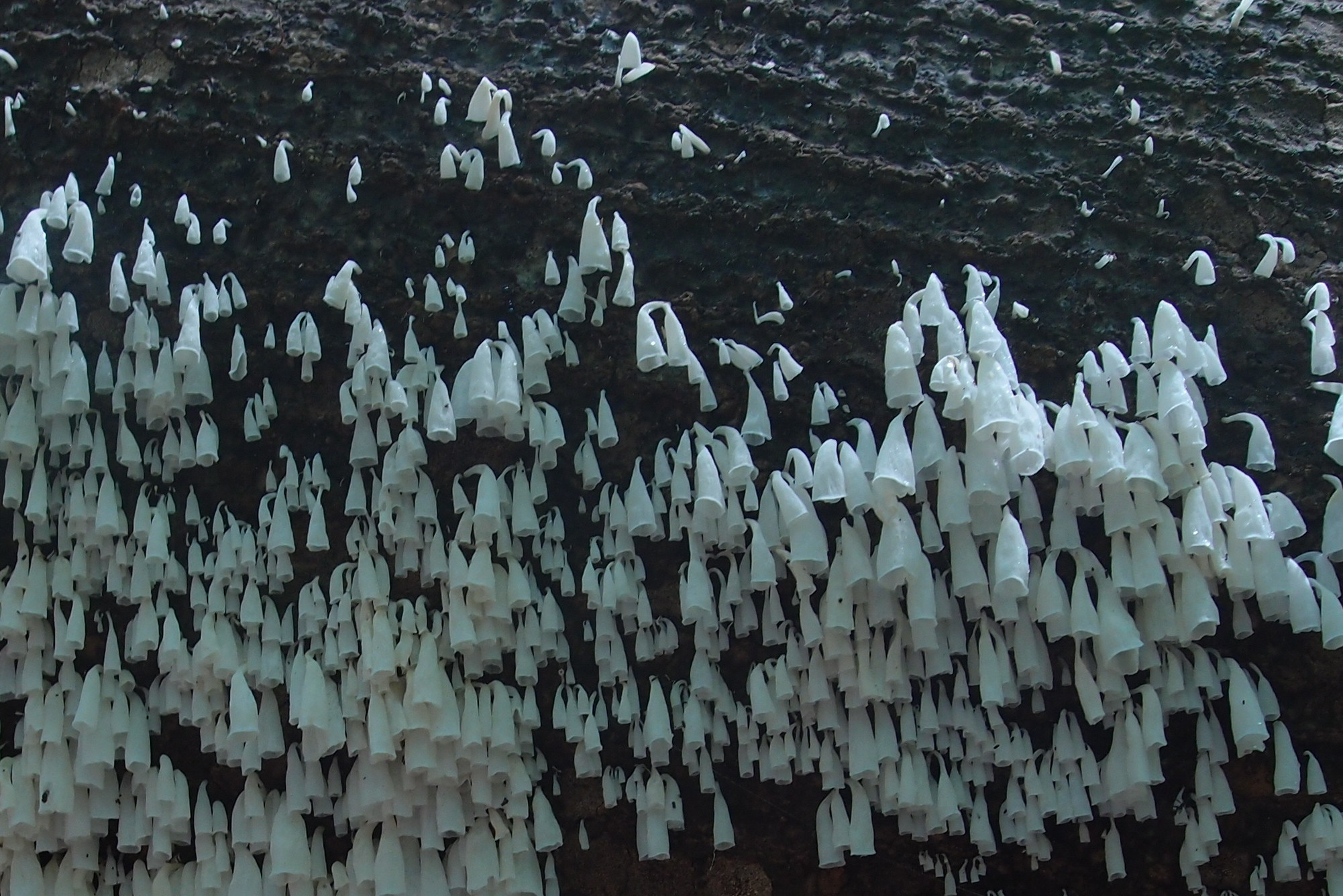 Calyptella longipes. Well.....these made my day. Part of an enormous group spread approx. 2.5m to 3m along a recently fallen tree [ wasn't there 12 months ago] in Barron Gorge National Park, Queensland, Australia. Previously I had only found a small group back in 2013.